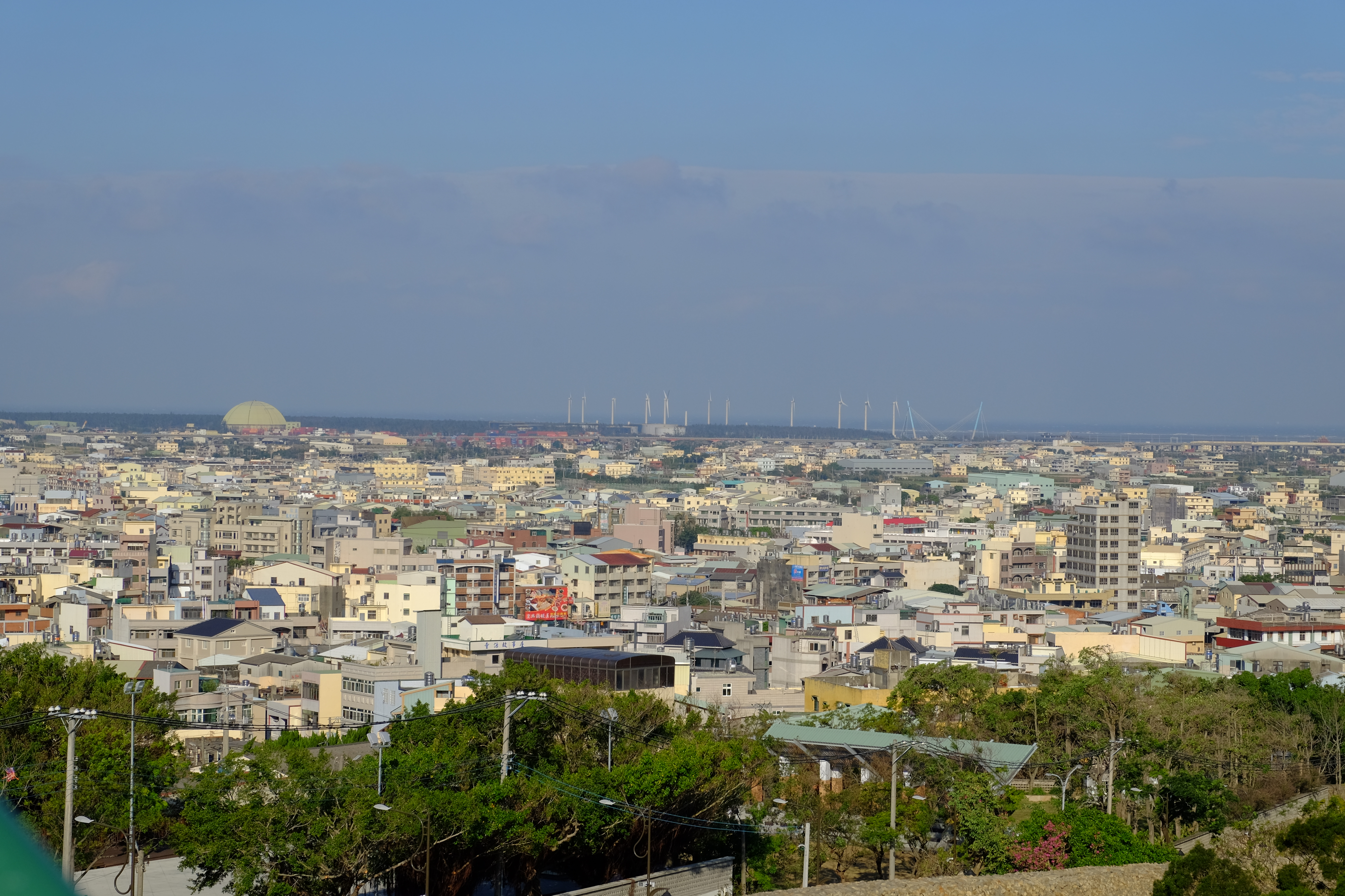 Qingshui from Aofeng Hill.